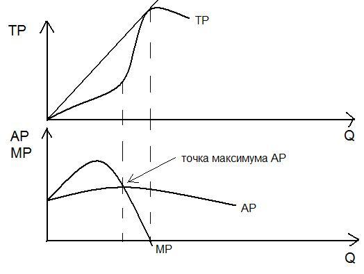 Connection between total, average and marginal products